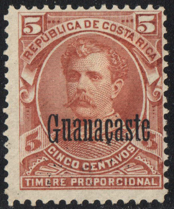 Guanacaste 1885 mint revenue, overprint on 1884 Costa Rica revenue stamps. Type B, Forbin #14